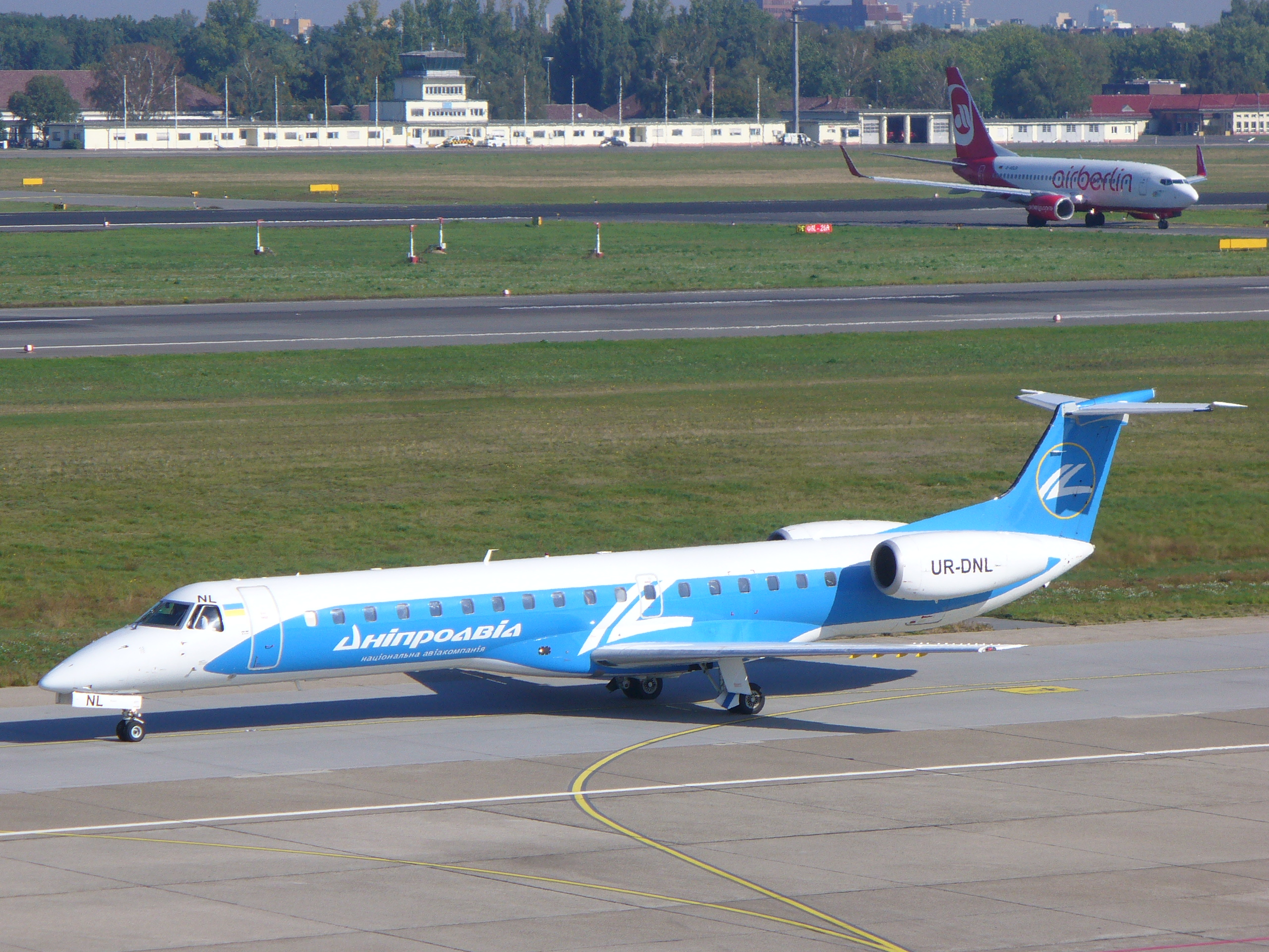 A Dniprovavia Embraer ERJ-145 at Berlin-Tegel Airport, operating on a flight from Dnipropetrovsk on behalf of Aerosvit Airlines.